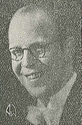 Thore Ehrling (1912-1994), Swedish musician (trumpetist), bandleader, composer, arranger and music publisher.